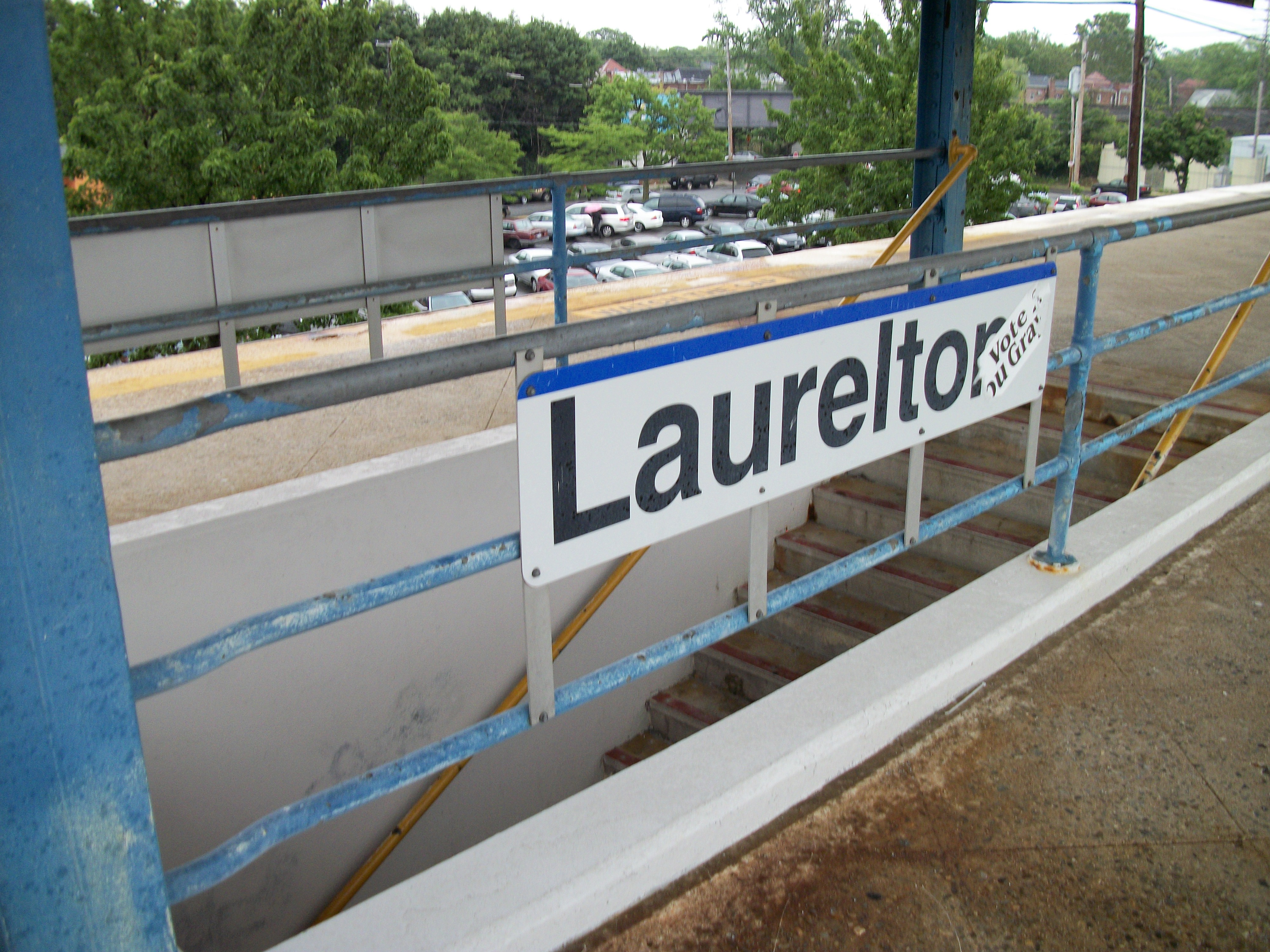 An image of one of the staircases in the center platform of Laurelton (LIRR station), in Laurelton, Queens, New York City. The Montauk Line can be seen in the background, and the right-of-way is about to merge with that of the Atlantic Branch to the right of this picture.